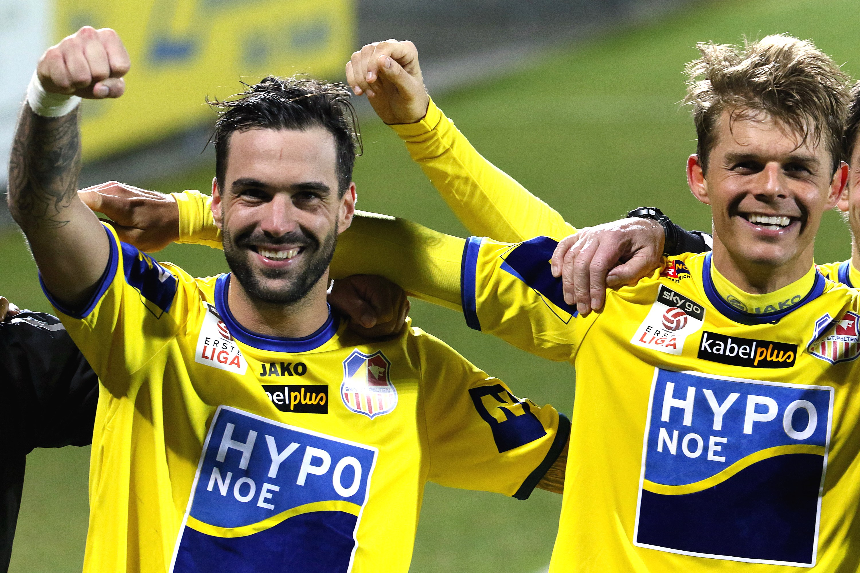 Match of the 2015–16 Austrian Cup – SV Mattersburg (green shirts) vs. SKN St. Pölten (yellow shirts) 1-2 (0-1) at 2016-02-09 in Pappelstadion, Mattersburg – The photo shows the goalscorers of SKN St. Pölten Andreas Dober (left) and Tomasz Wisio (right).